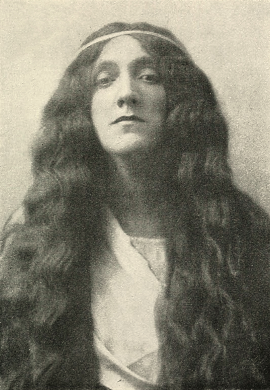 Portrait photo of Anna von Mildenburg/Anna Bahr-Mildenburg (1872-1947) following p. 256 in Das Hermann Bahr Buch.